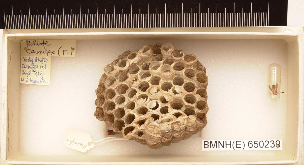 Polistes carnifex - nest collect in Brazil in 1967 by William Donald Hamilton - stored at the Natural History Museum, London - Collection number 650239